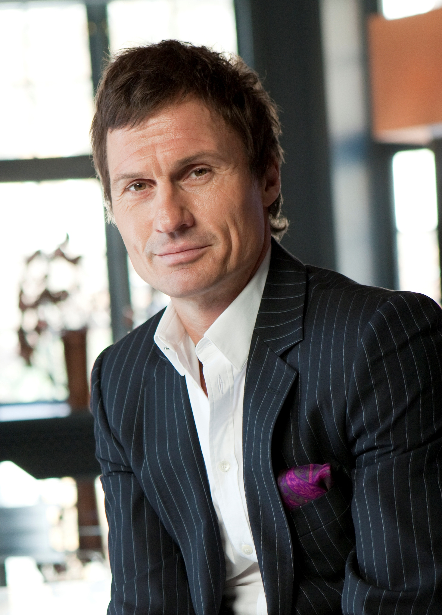 Norwegian businessman and billionaire, Petter Stordalen.